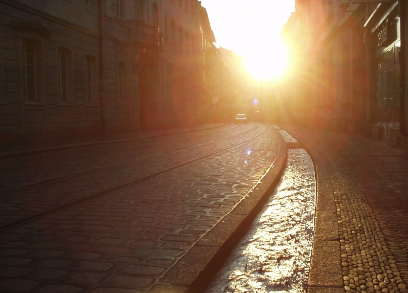 Bächle, symbol of Freiburg, Germany